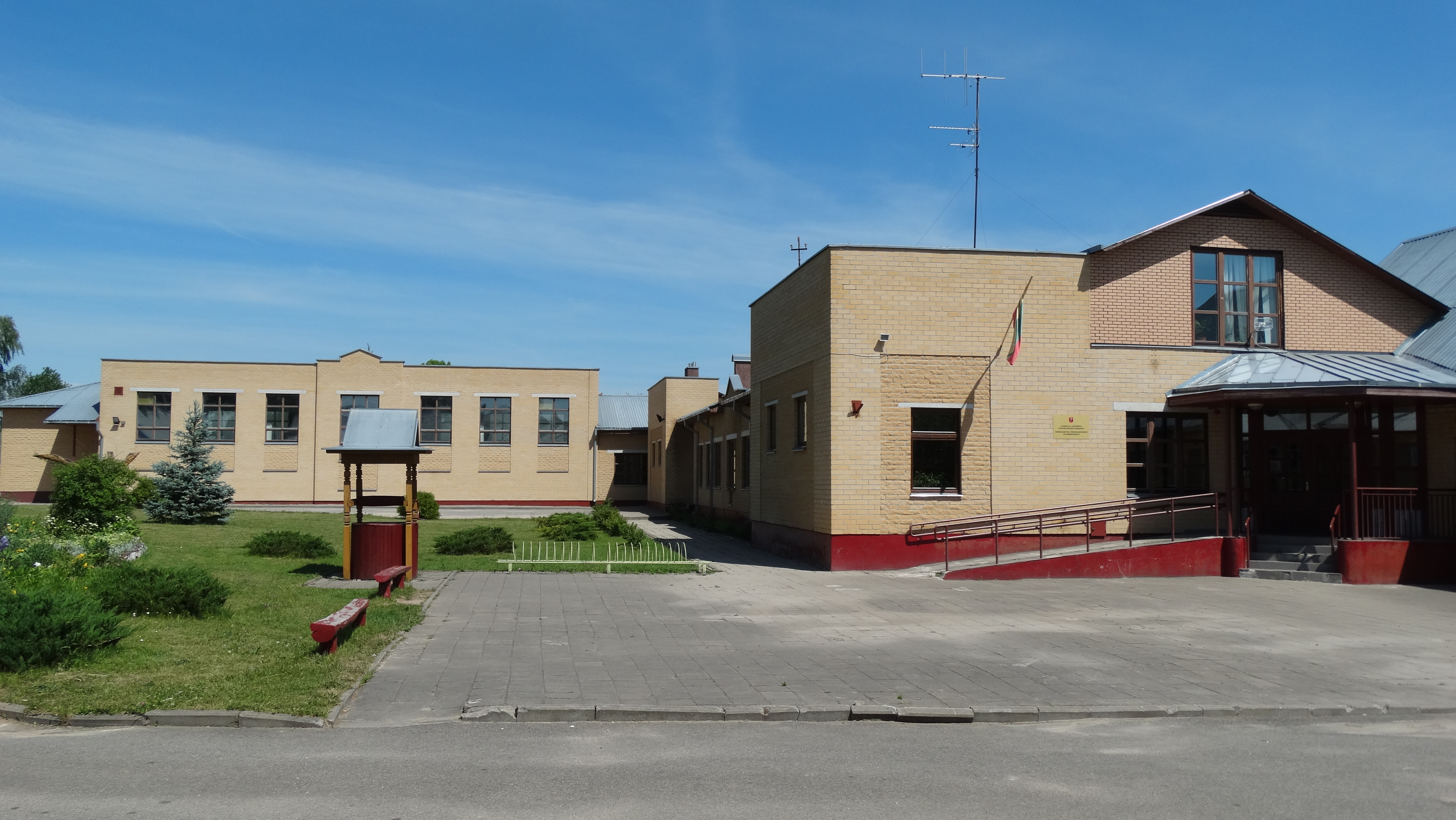 Stephen Báthory Gymnasium, Lavoriškės, Vilnius District, Lithuania